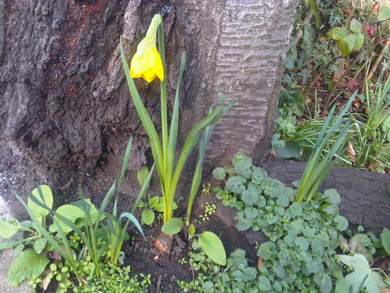 Narcissus pseudonarcissus in Kew Gardens, England.